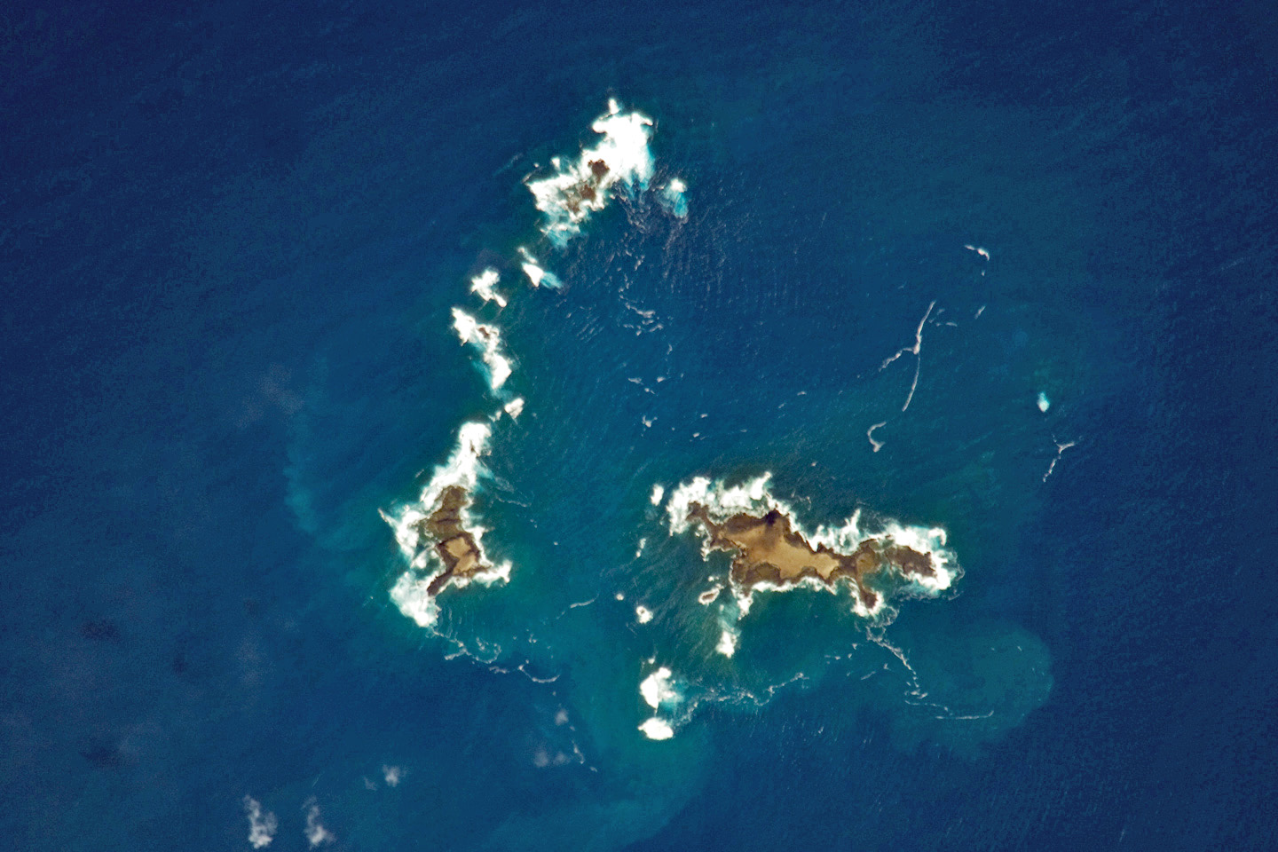 The irregularly-shaped Ilhéus do Norte, Ilhéu de Fora, and Selvagem Pequena are visible in the centre of the image. The islands are ringed by bright white breaking waves along the fringing beaches.